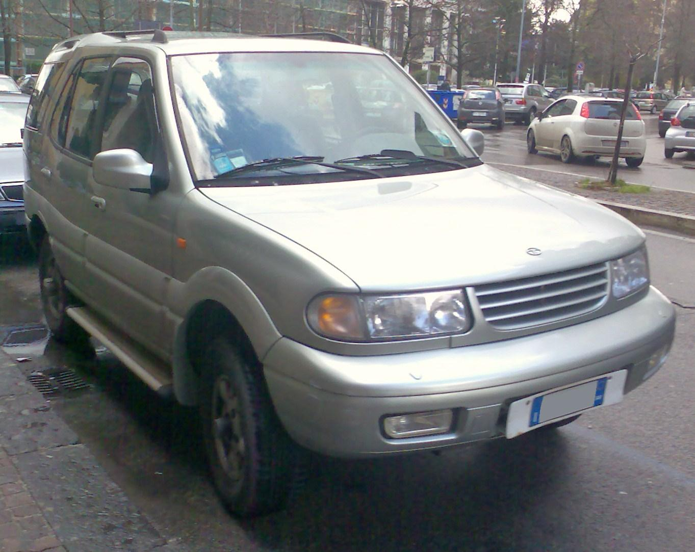 Tata Safari